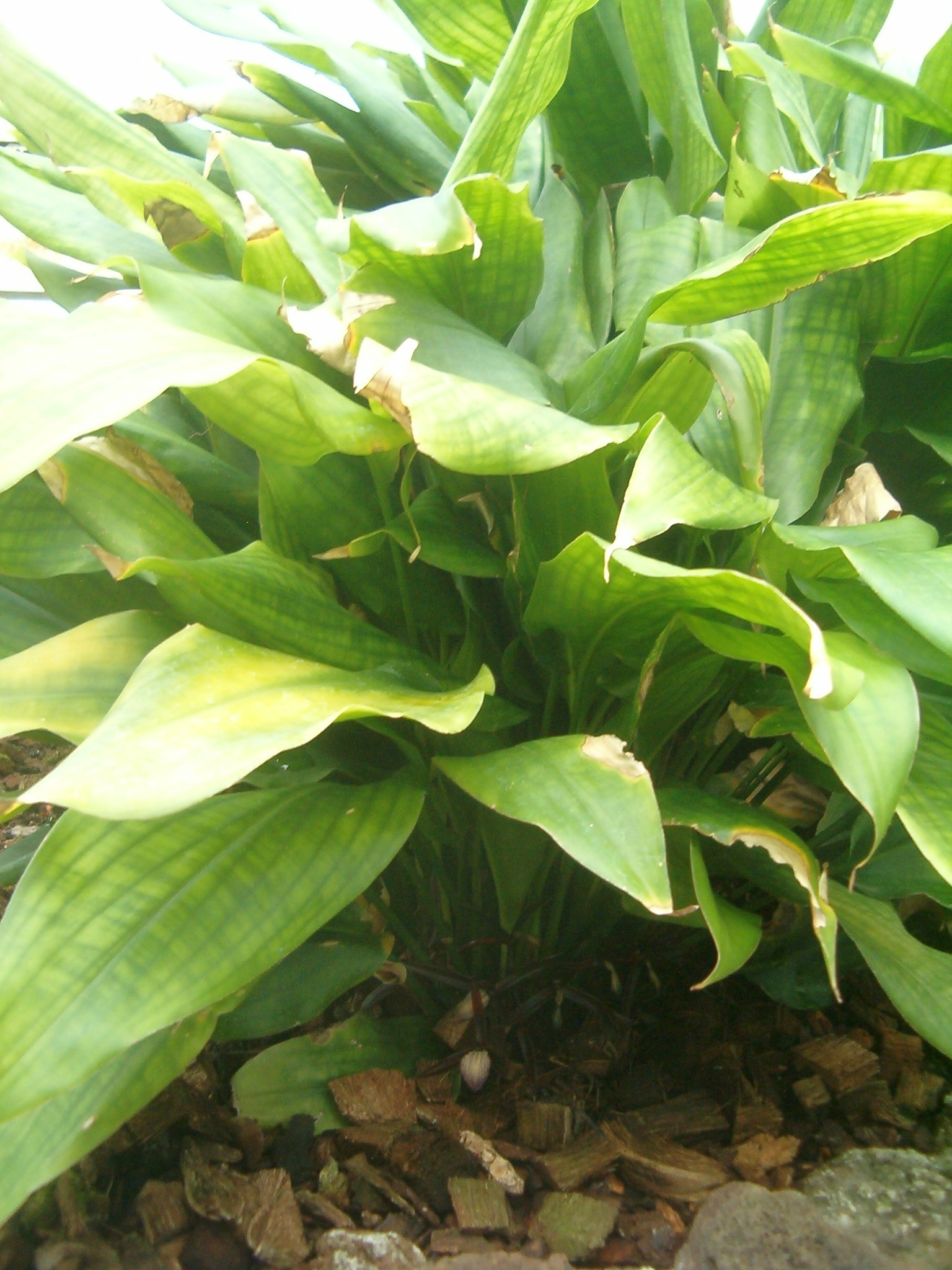 At Botanical Gardens Berlin-Dahlem Species Orchidantha maxillarioides